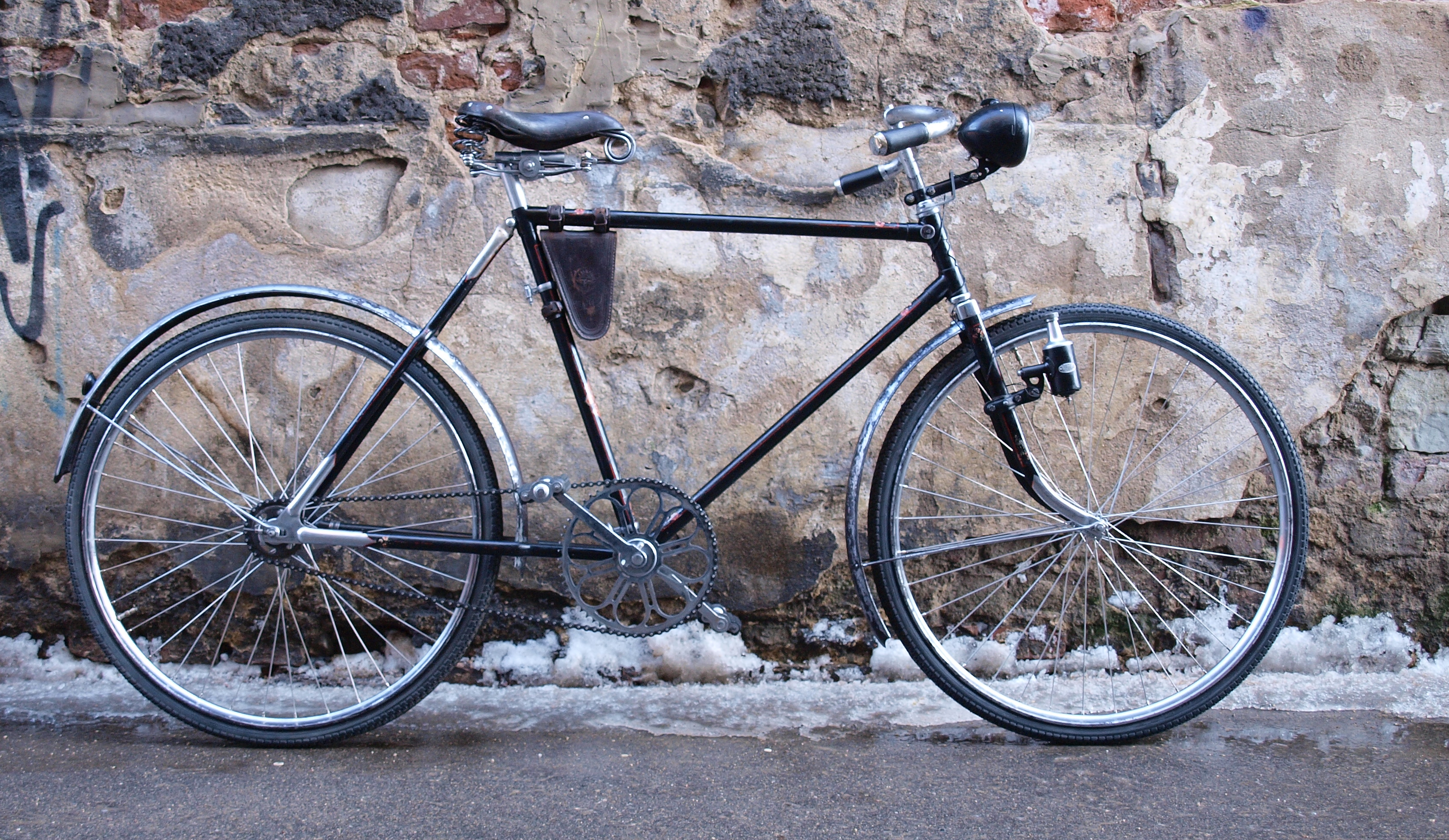 A G. Ērenpreis gent bicycle, manufactured in 1940. (The photograph was taken with an Olympus digital camera after the photographer had finished restoration and conservation of the bicycle. It has not been previously published anywhere.)